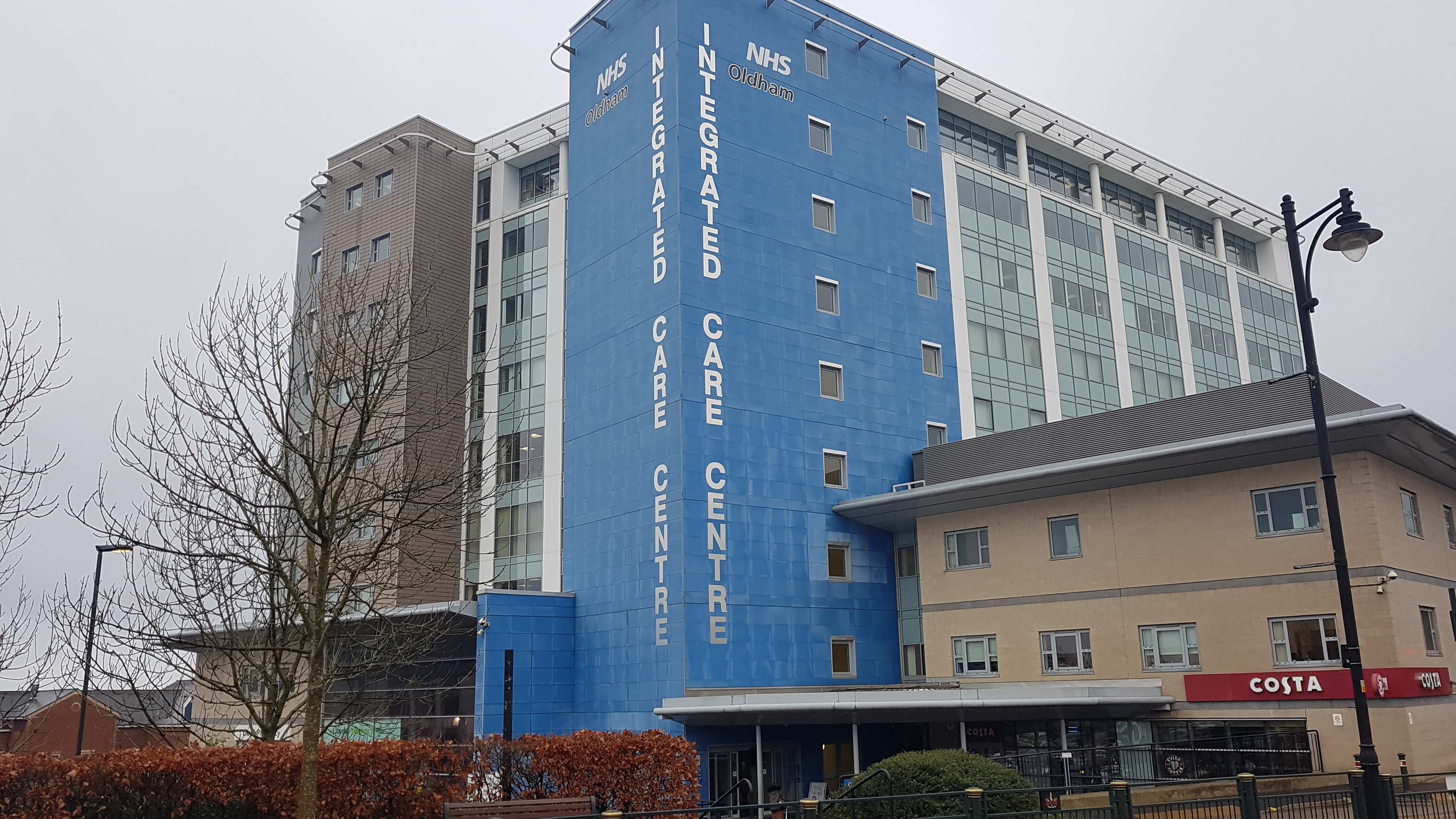 Oldham Integrated Care Centre in the centre of the town houses a variety of community health services, 5 GP practices, a dentist and a pharmacy